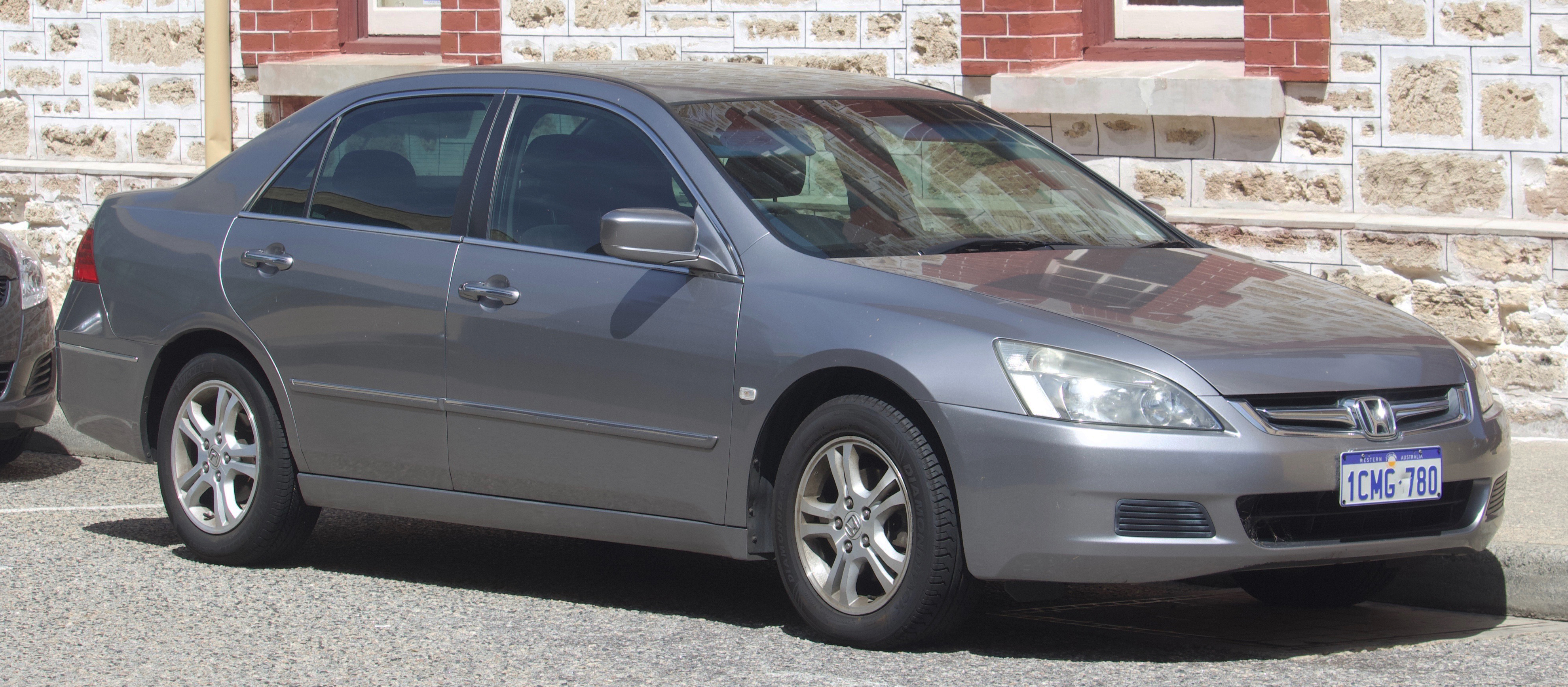 2005-2007 Honda Accord VTi sedan. Photographed in Fremantle, Western Australia, Australia.